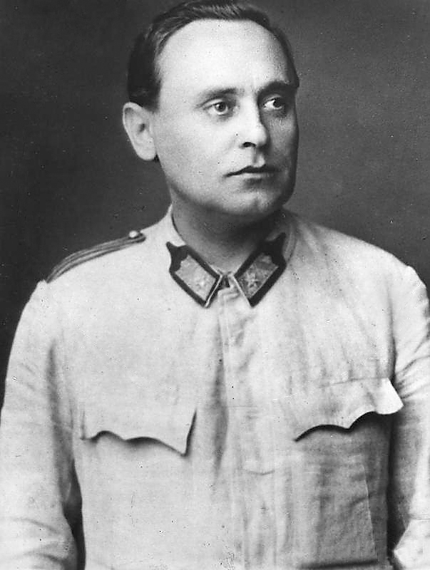 Ferenc Szálasi (1897-1946), Portrait photography as chief of Hungarian governement.